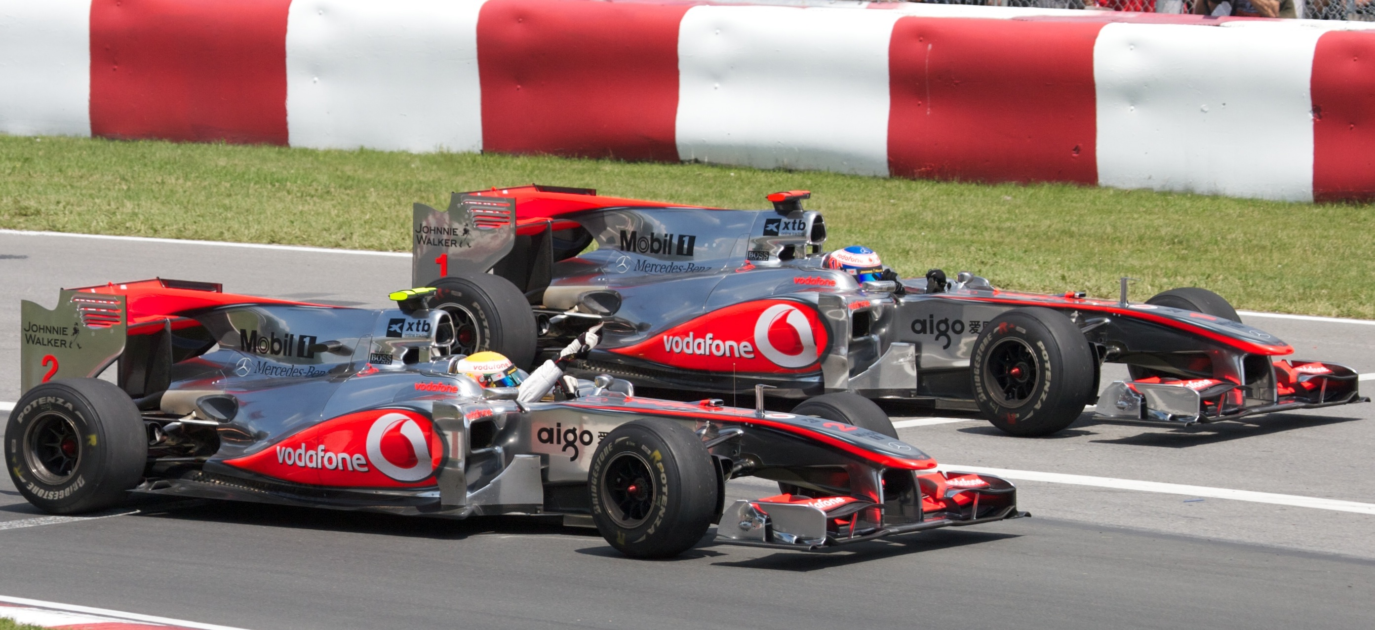 Formula One 2010 Rd.8 Canadian GP: Lewis Hamilton and Jenson Button giving 1-2 finish for McLaren.